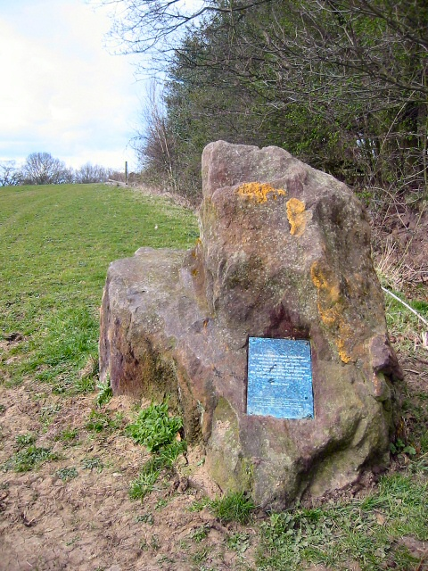 Greensand Ridge Marker Stone This marker stone is on the edge of Ampthill Park and features a plaque commemorating the Queen's jubilee (if I recall correctly!)